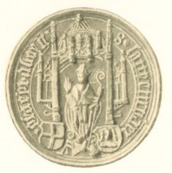 Seal of Bishop Lars Michelsson Suurpää of Finland